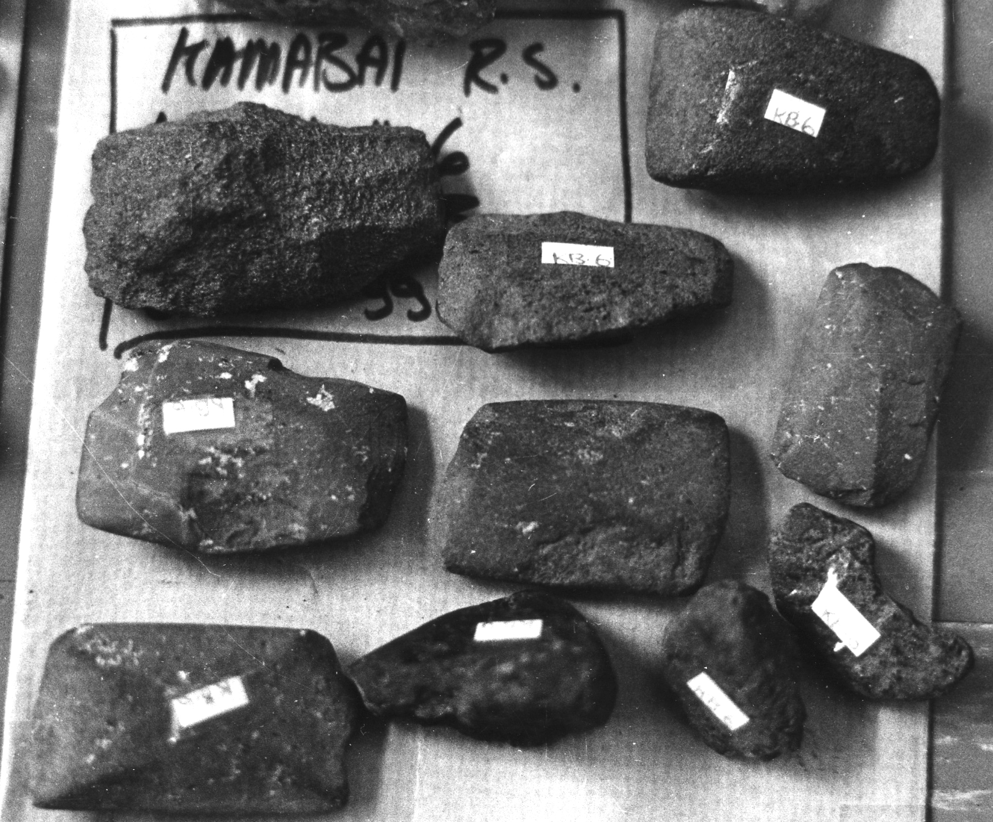 Photo taken at the Institute of African Studies, Fourah Bay College, Freetown, Sierra Leone in 1968. The celts were probably hafted as axes or adzes and used to shape artefacts (mortars for pounding rice, for example) from wood or other soft materials. The "crayons" were probably used for red colouring. These artefacts date to about 2,000 years ago.